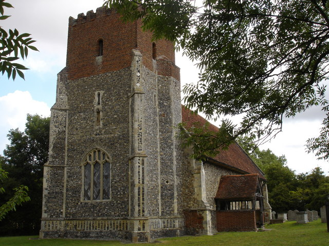 Church of St Lawrence in Little Wenham, Suffolk, England. A Grade I listed medieval church.